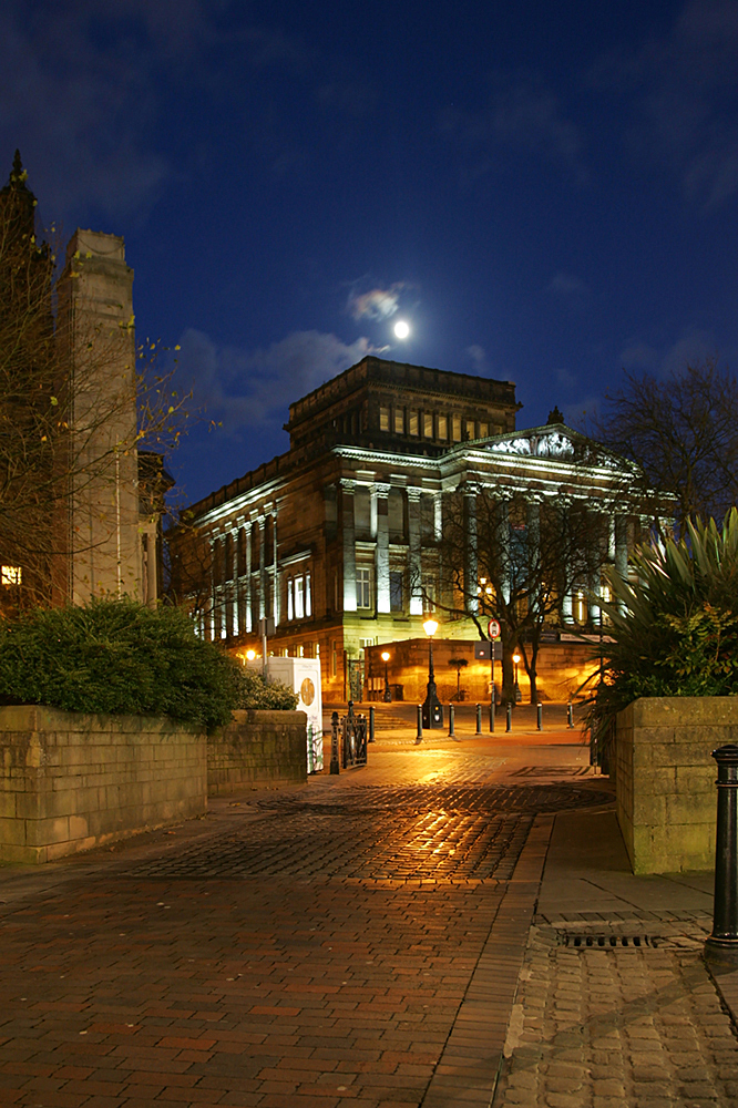 Harris Museum